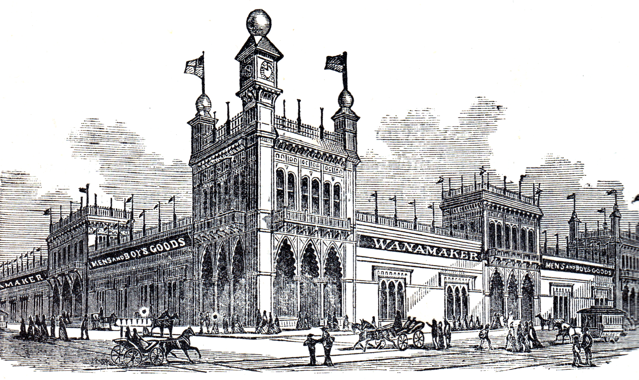 John Wanamaker's Clothing House on Market St, Philadelphia, PA 1876